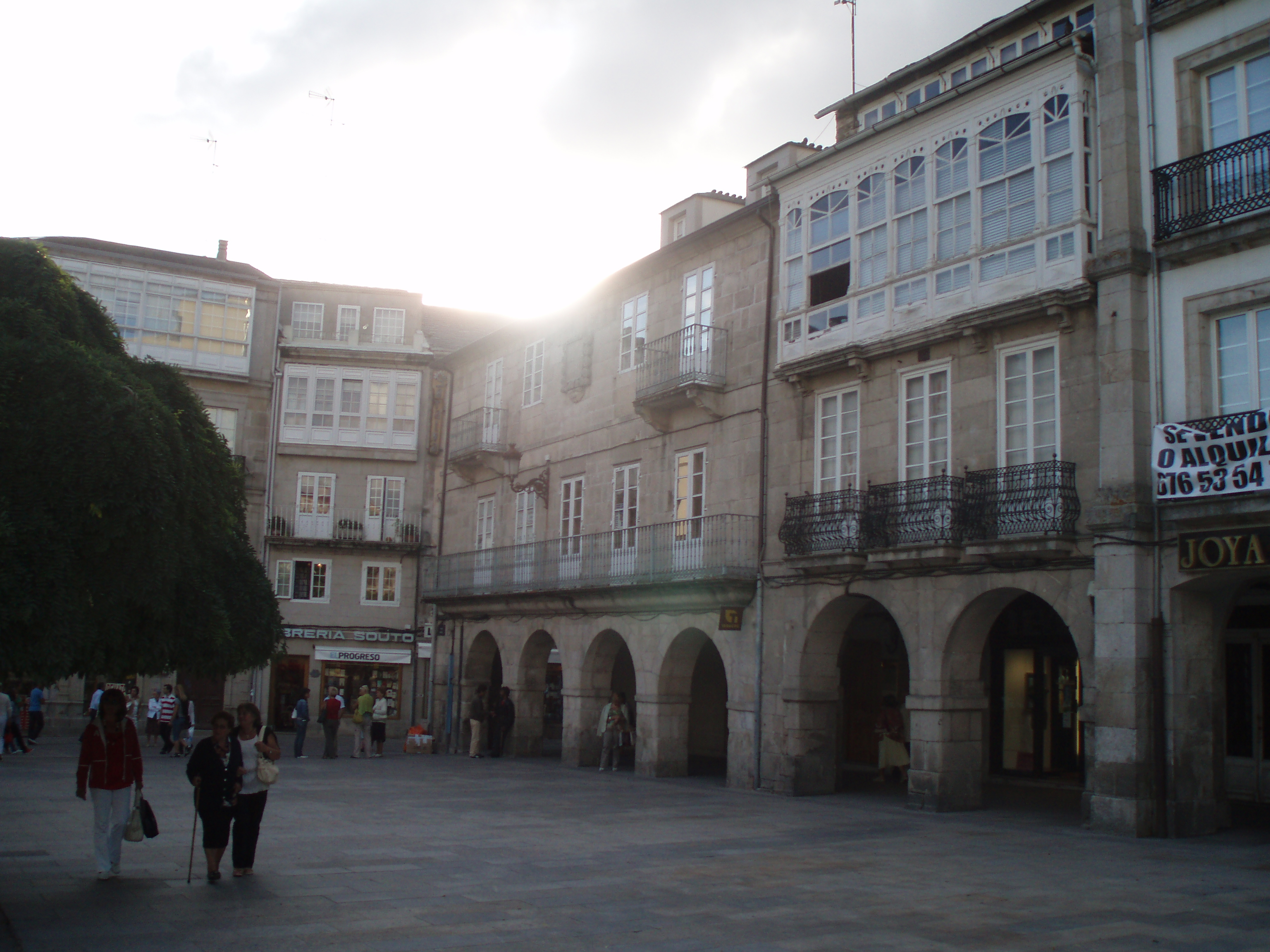 Spain square, in Lugo. (Spain).